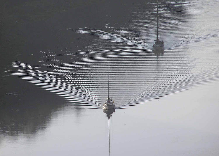 Two boat wake, Avon Gorge